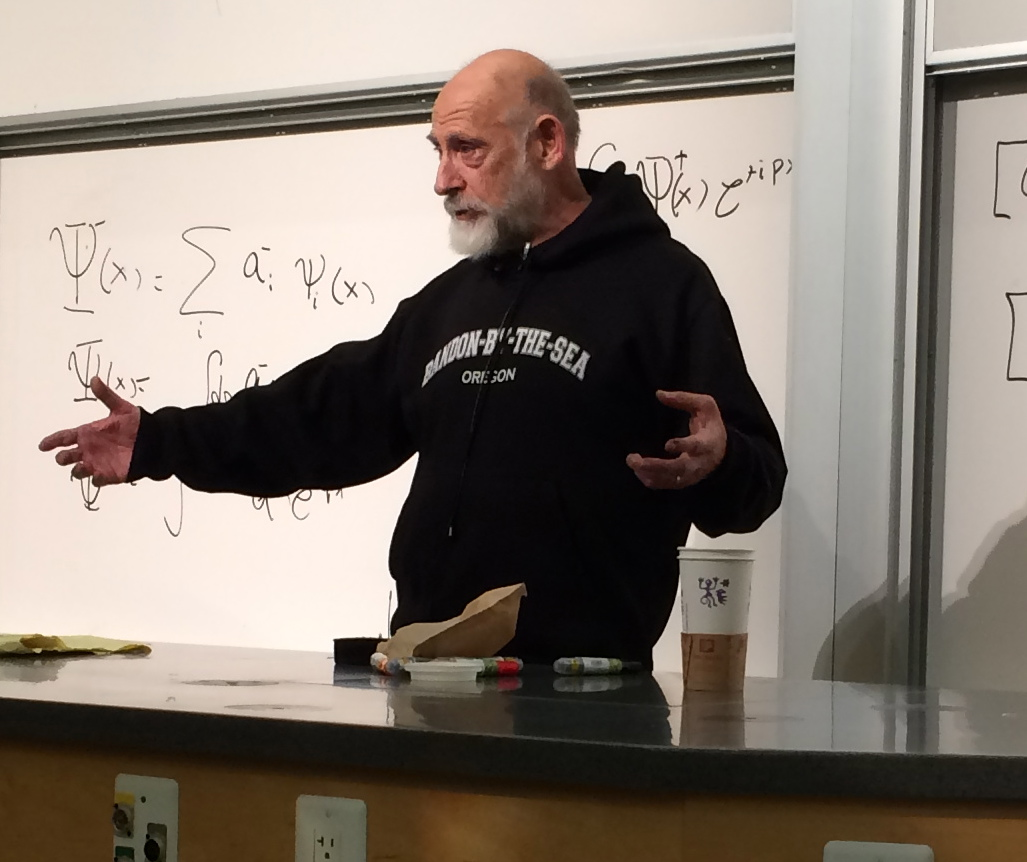 Leonard Susskind teaching advanced quantum mechanics at Stanford University. November 11, 2013.